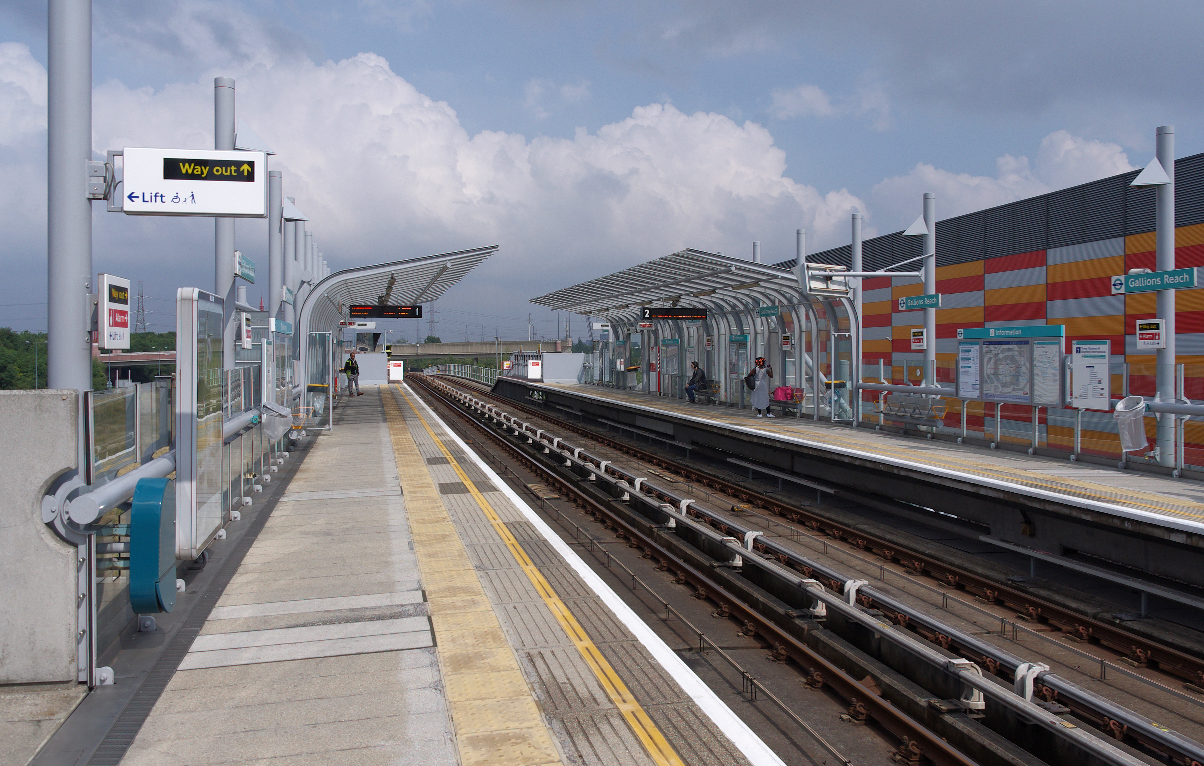 Looking north along the platforms at Gallions Reach DLR station.